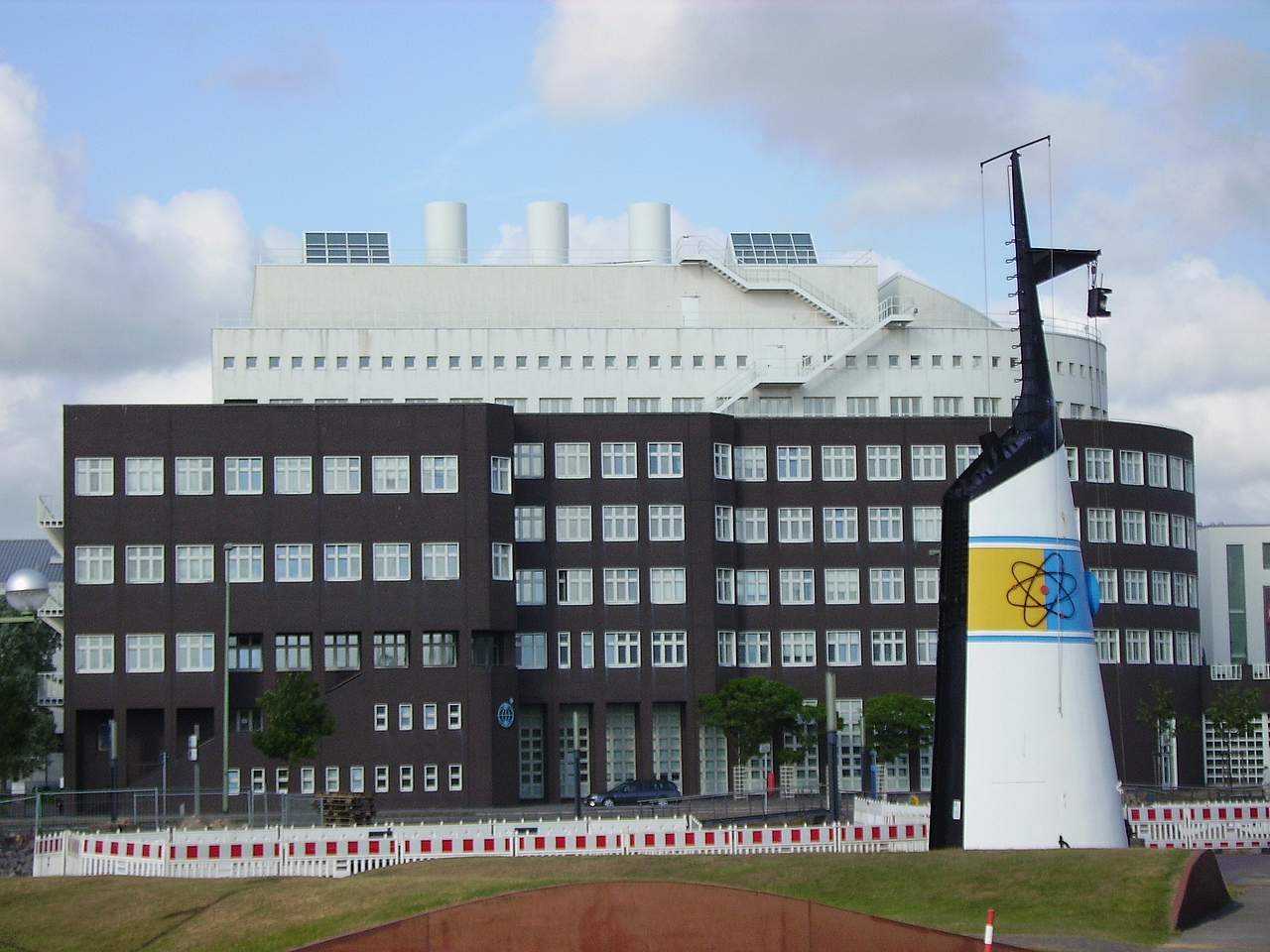 View of the Alfred Wegener Institute for Polar and Marine Research in Bremerhaven. On the right side you can see the former smokestack of the German nuclear-powered freight ship "Otto Hahn"